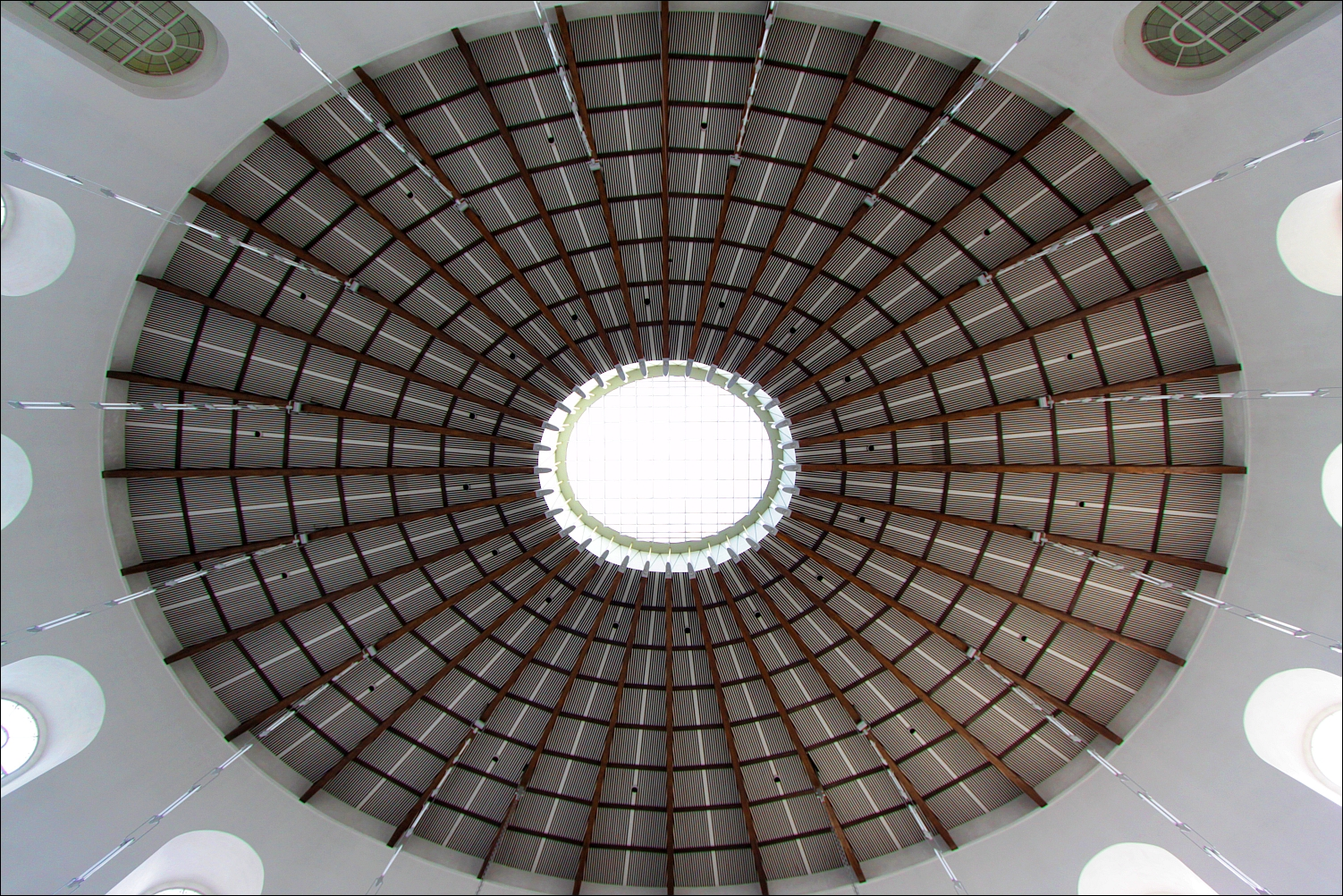 Skylight and ceiling of the Frankfurter Paulskirche.This is a photograph of an architectural monument.